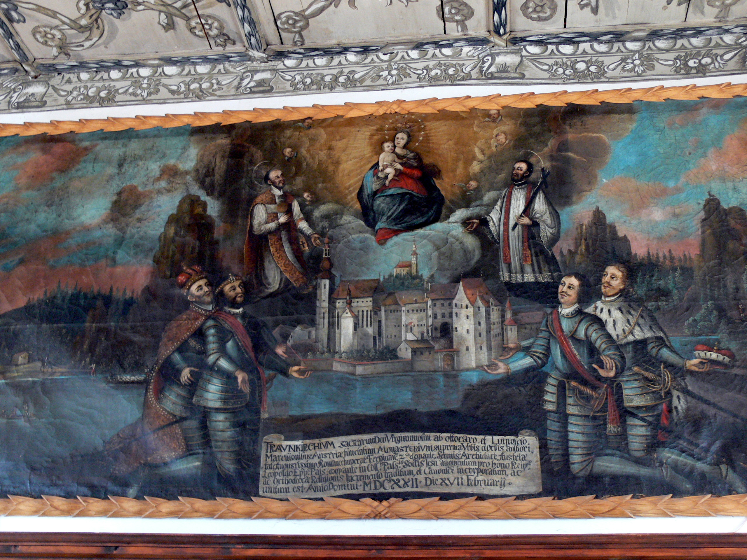 Traunkirchen monastery: Image of the refoundation of the monastery in 1622, today in the former library.